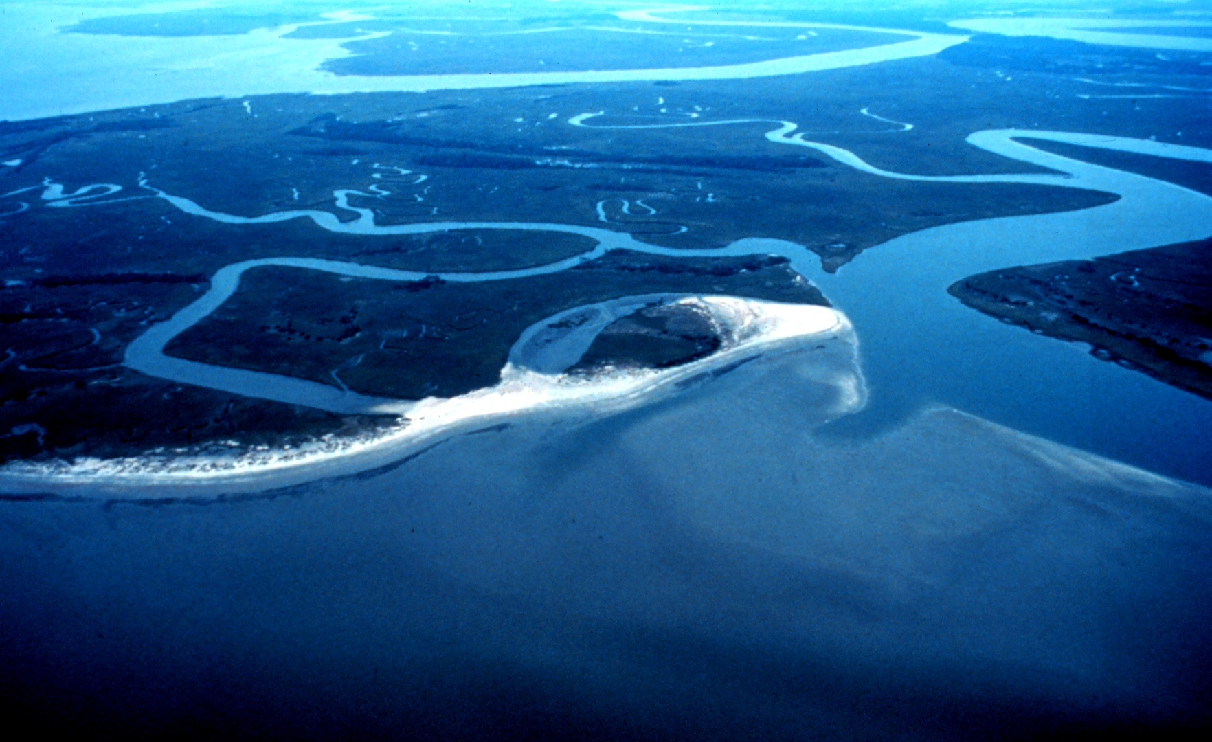 ACE Basin National Estuarine Research Reserve. Otter Island from the air. South Carolina 45 miles south of Charleston.